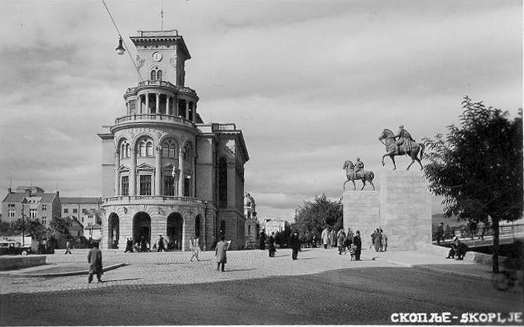 Yugoslav Officers Hall (or Yugoslav Army Hall) building in Skopje, Macedonia Српски (ћирилица): Зграда Официрског дома у Скопљу, Македониjа